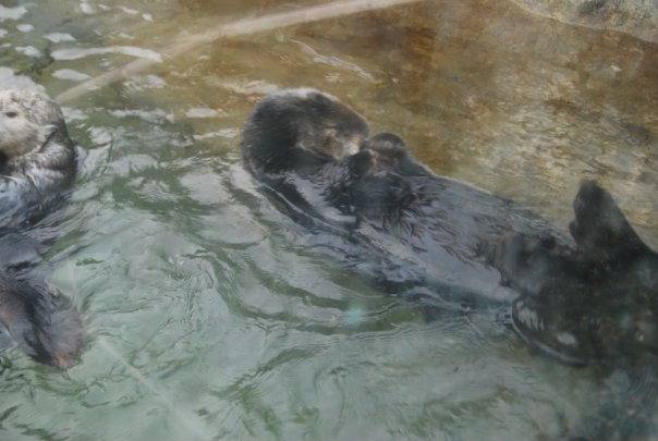 visa 110 quiz 2